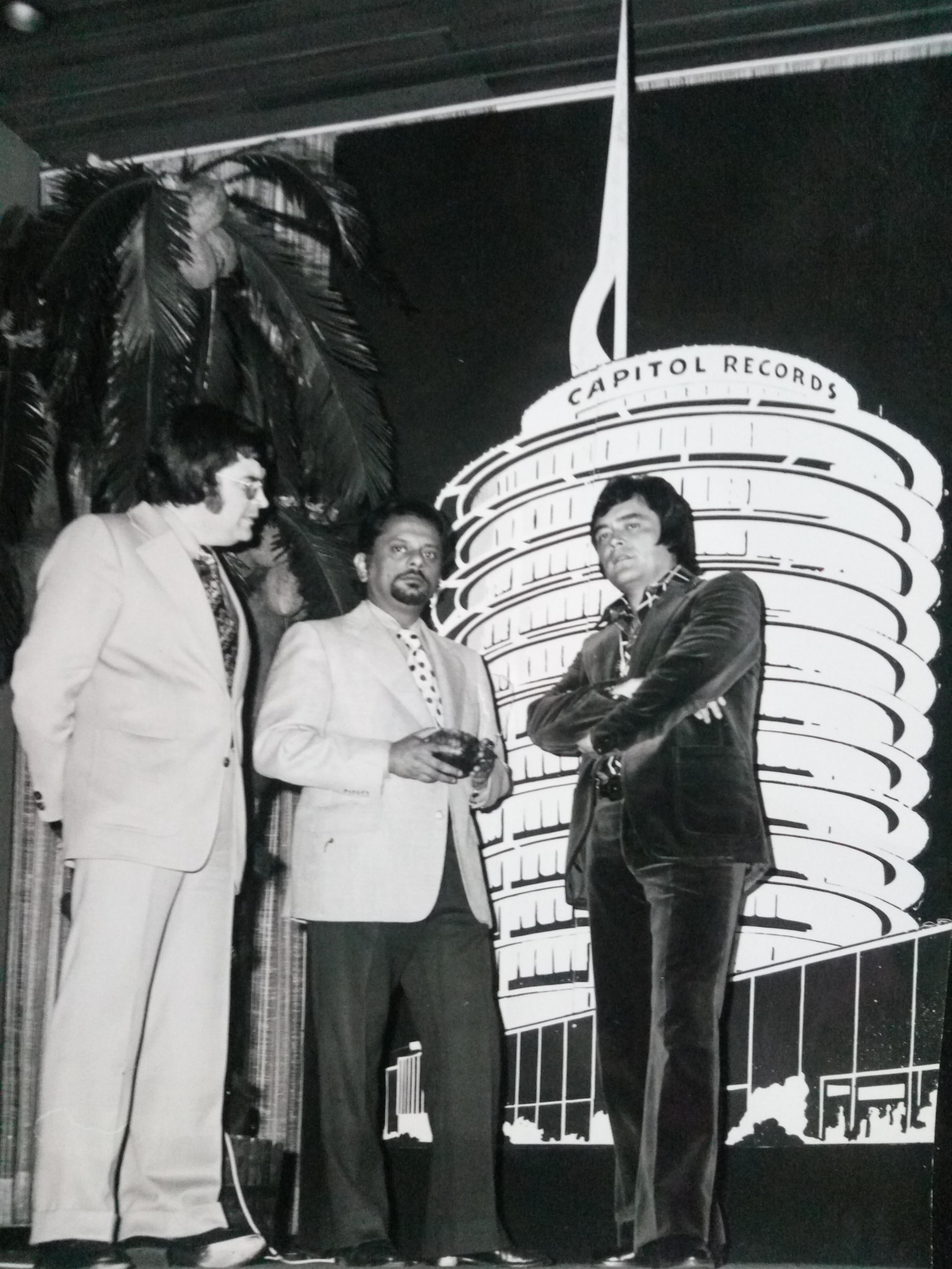 Roel Kruize (Bovema Director), Bhaskar Menon (Chairman of EMI Music Worldwide and Capitol Records), Jack Jersey (artist)